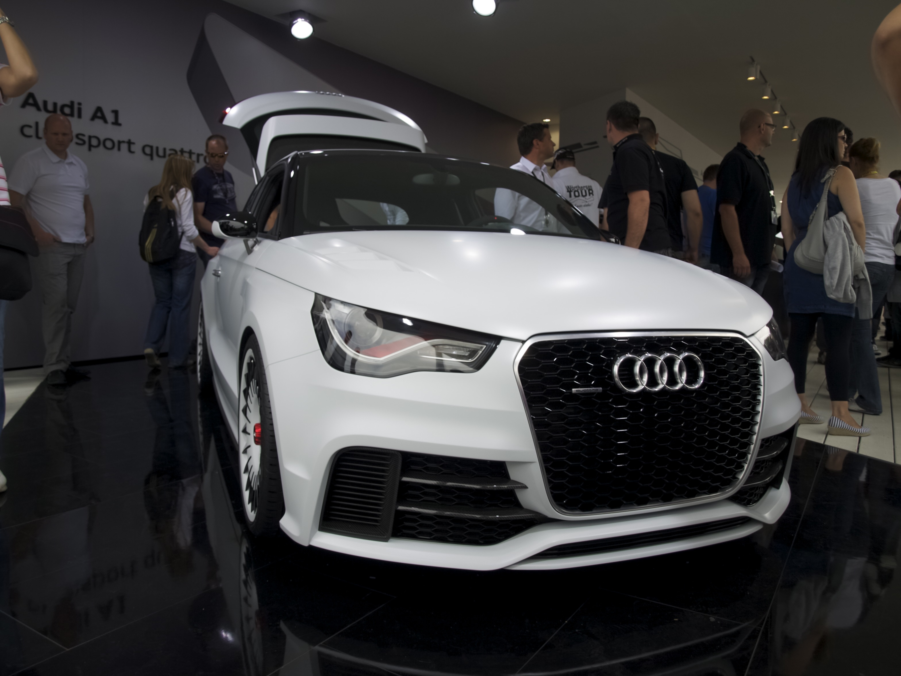 Audi A1 clubsport quattro (Wörthersee 2011)